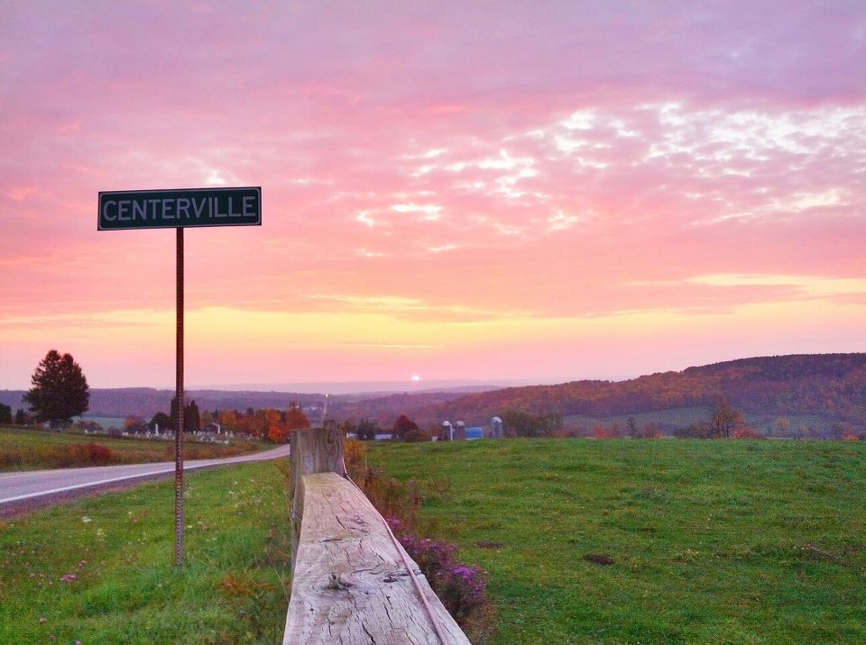 A picture of Centerville, NY taken at Sunrise.